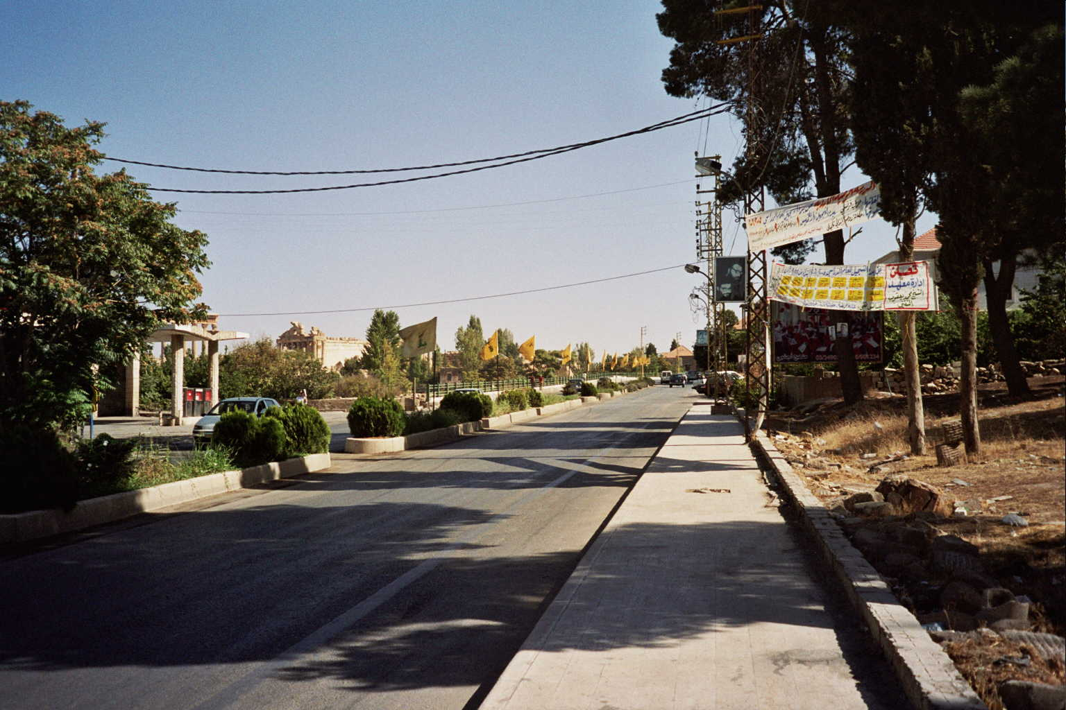 the road into baalbek. if you look closely, you can see the yellow hezbollah flags lining the median strip.